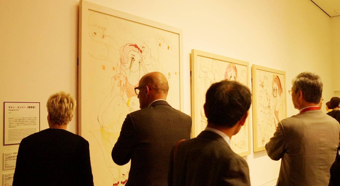 Love show